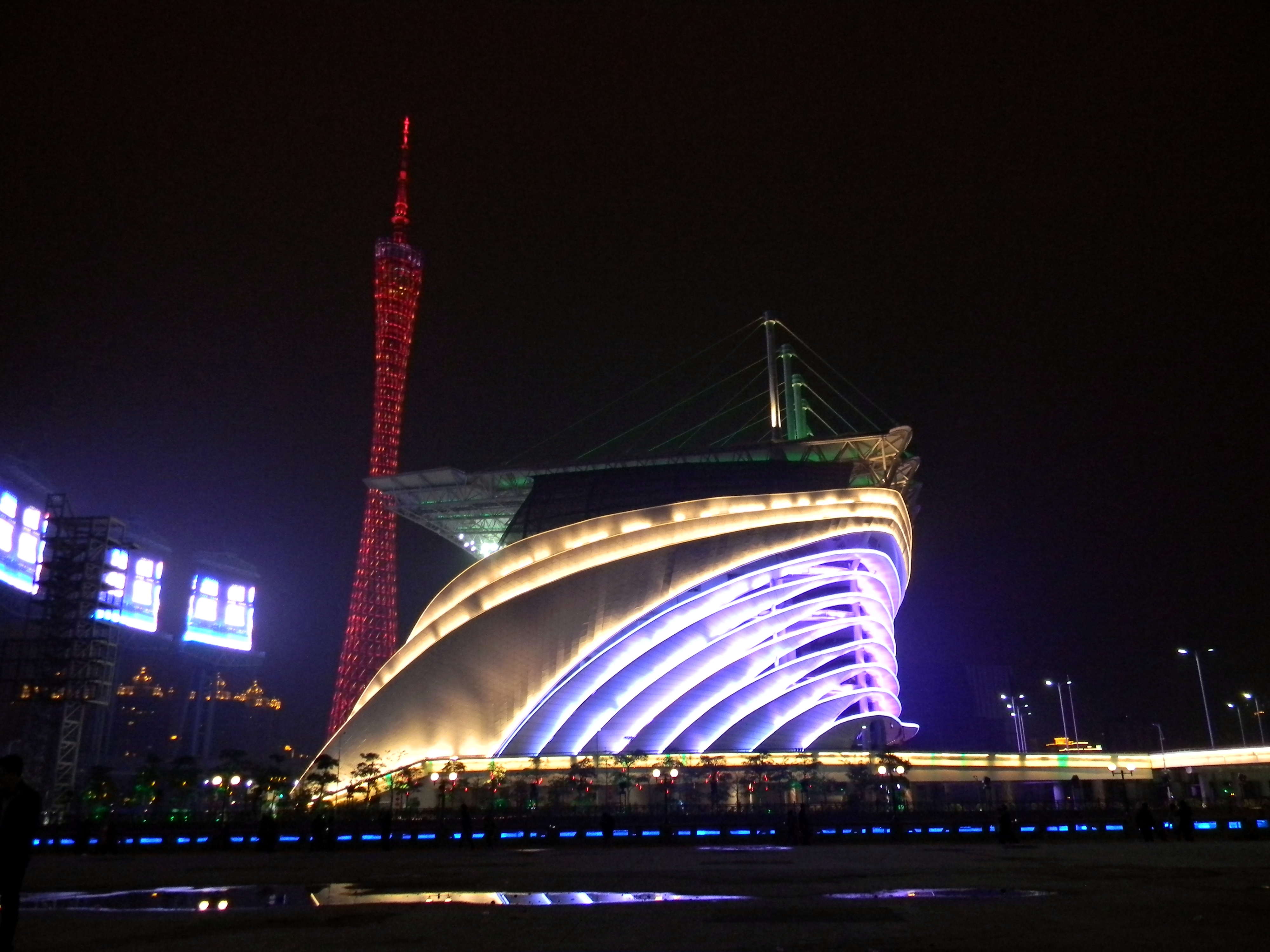 Guangzhou Opera House and Canton Tower